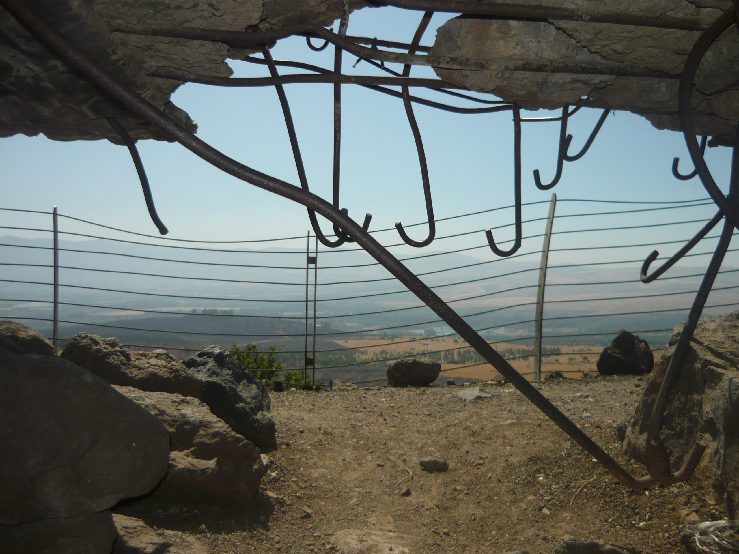 Hula valley as it is seen from the remains of the syrian fortress in Tel Faher עמק החולה כפי שהוא נראה משרידי המוצב הסורי בתל פאחר